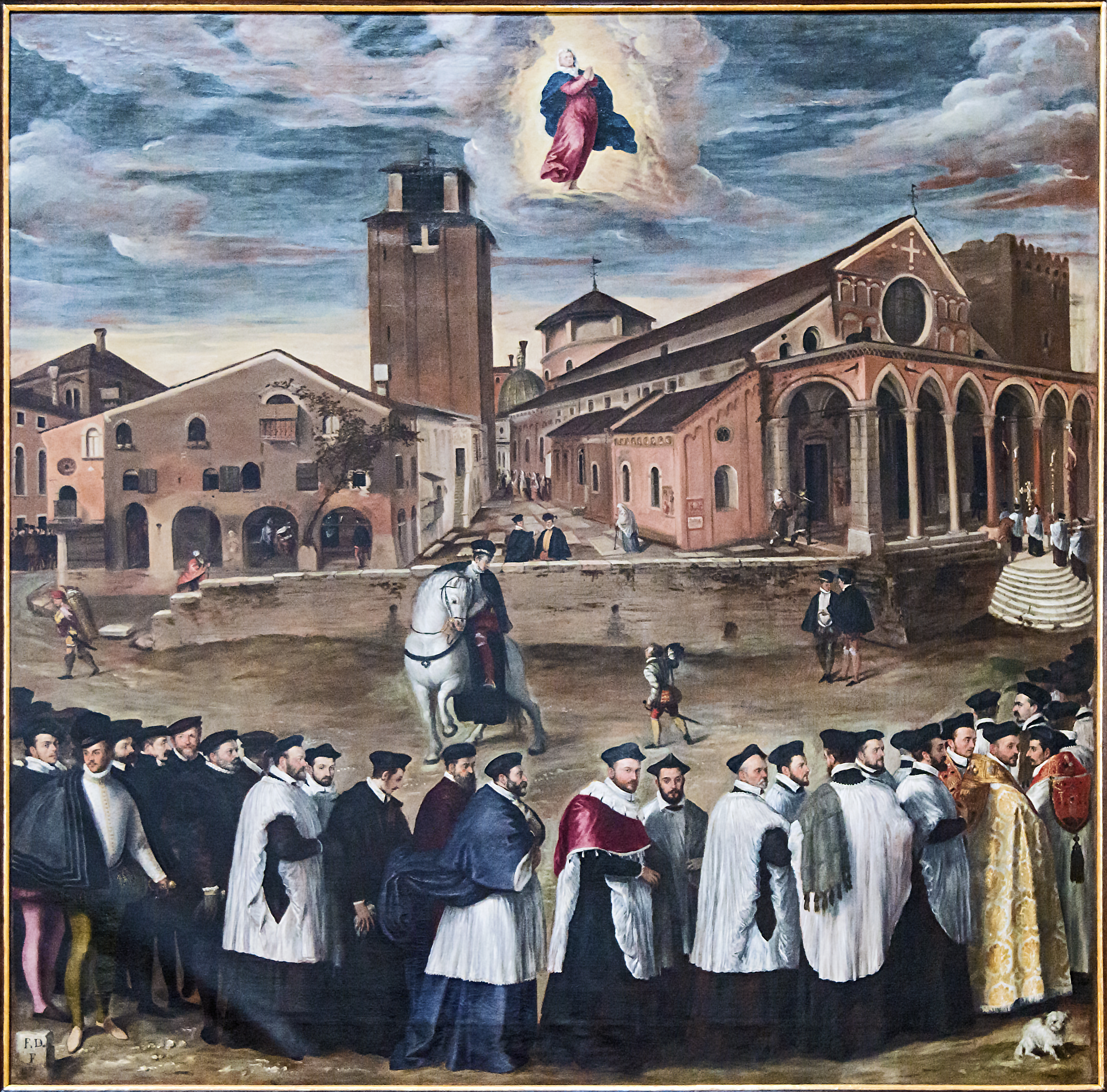 Treviso Cathedral - Painting by Francesco Dominici exposed in the chapel of the Madonna, showing the cathedral before its redesign in 1760.